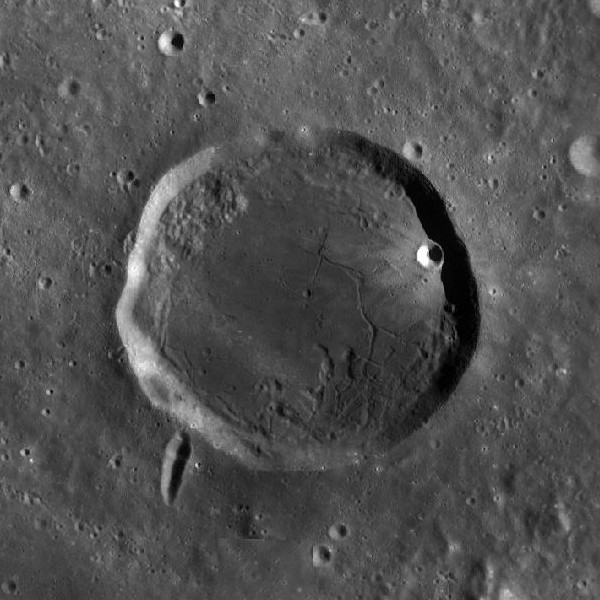 Kopff crater, on the far side of the moon. Mosaic of LRO WAC images.